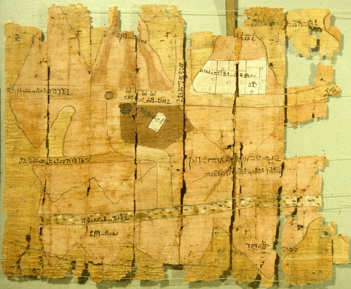 Fragments of Turin papyrus - an ancient Egyptian mining map (left half) for Ramesses IV's quarrying expedition, 12th century BC (New Kingdom)